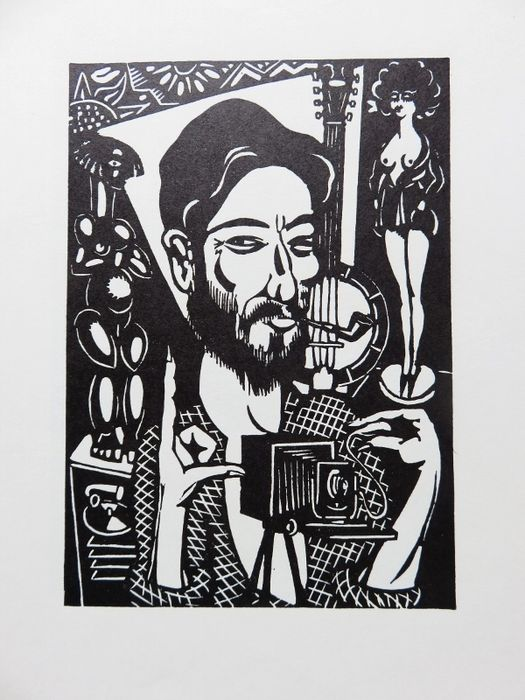 Self portrait with photocamera (1925) by Henri Van Straten. Woodcut